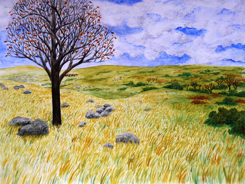 Minhiriath, a region in the south of Eriador